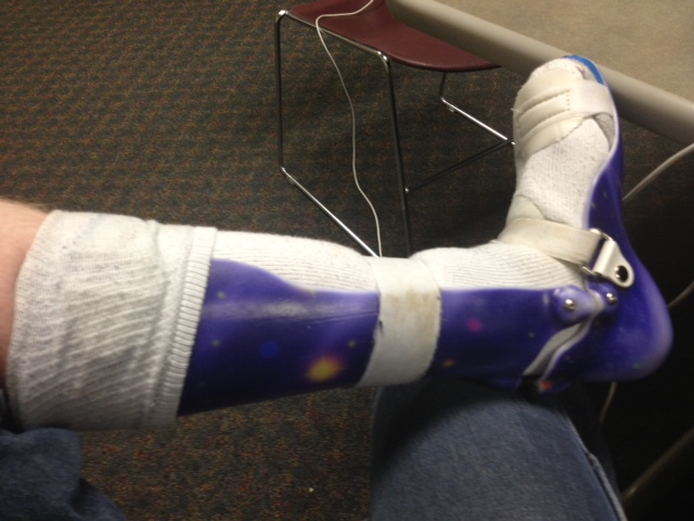 A leg brace worn on the left foot with ankle hinge